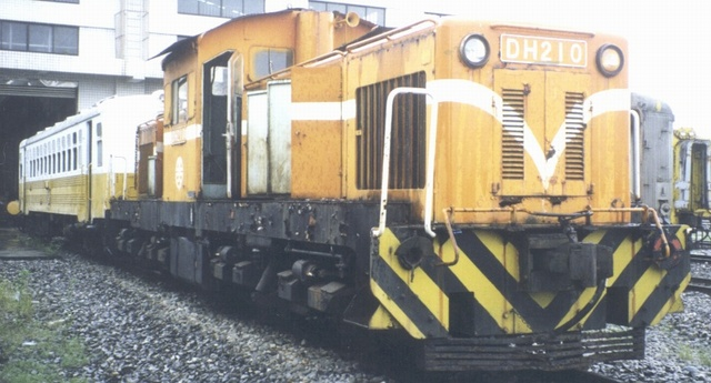 DH210 in Hualien Railway Workshop, Taiwan Railway Administration.